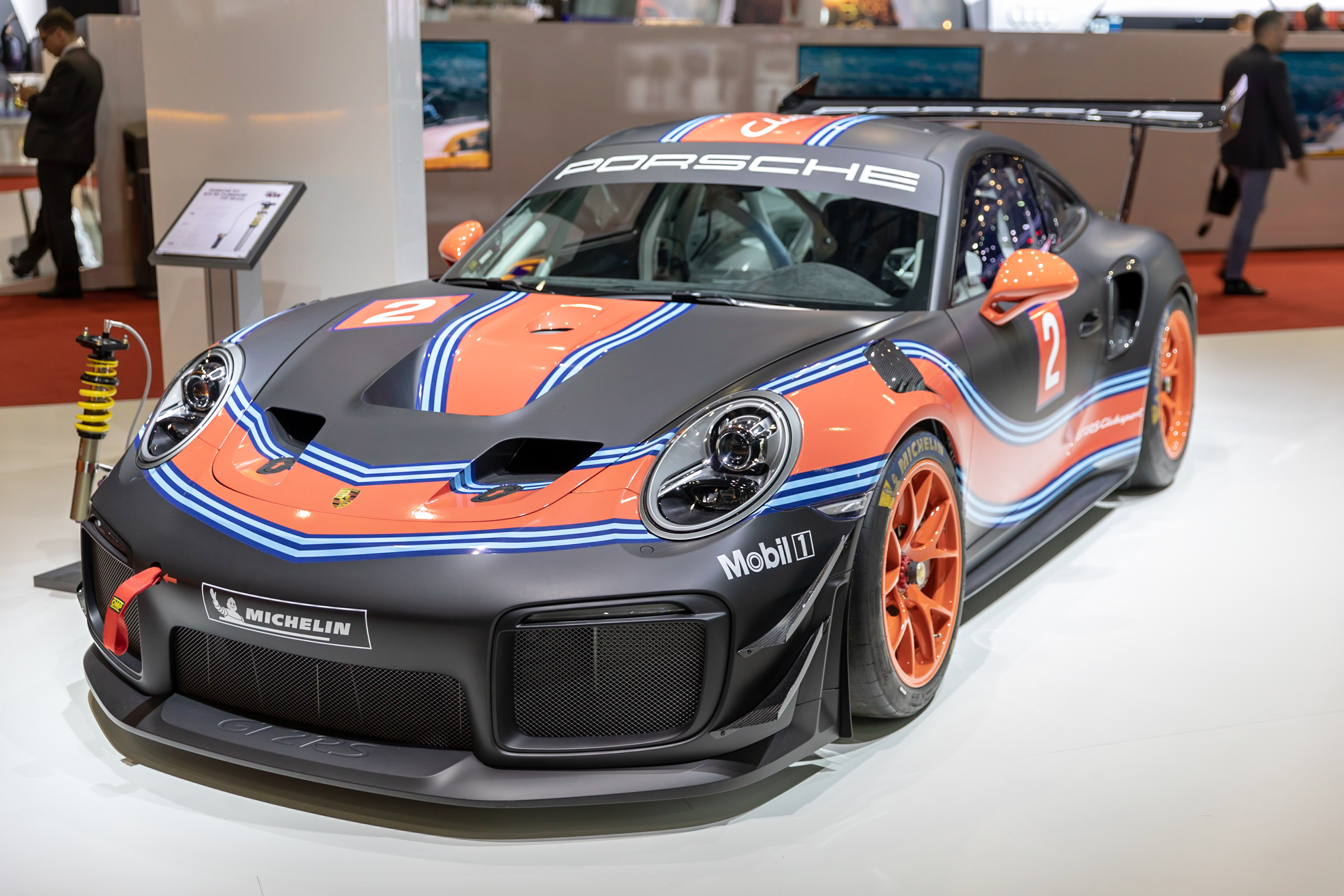 Porsche 911 GT2 RS Clubsport at Geneva International Motor Show 2019, Le Grand-Saconnex